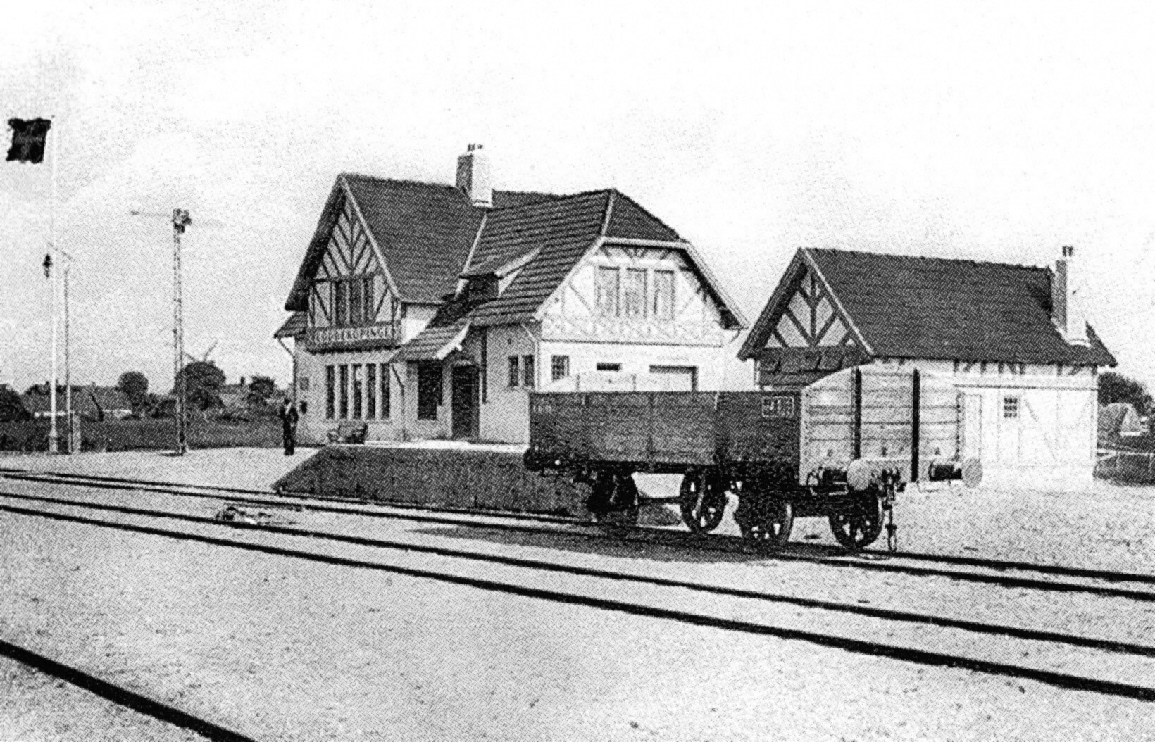 Löddeköpinge railway station on Kävlinge-Barsebäckshamns Järnväg (later Landskrona-Kävlinge-Sjöbo Järnväg) around 1910.